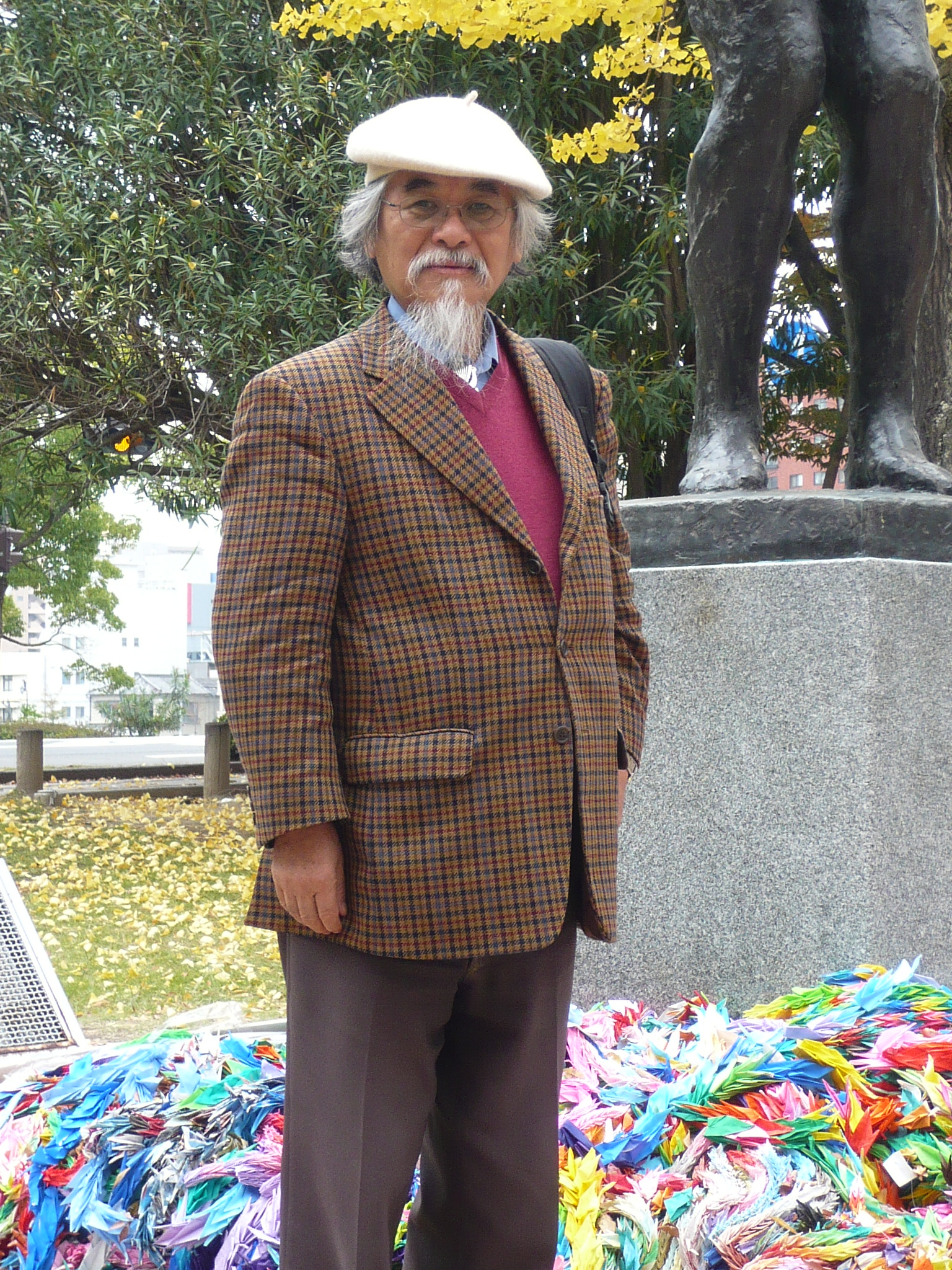 Peace fighter from Hiroshima, JapanEsperanto: Pacbatalanto el Hiroshimo, Japanio. Parolas Esperanton.